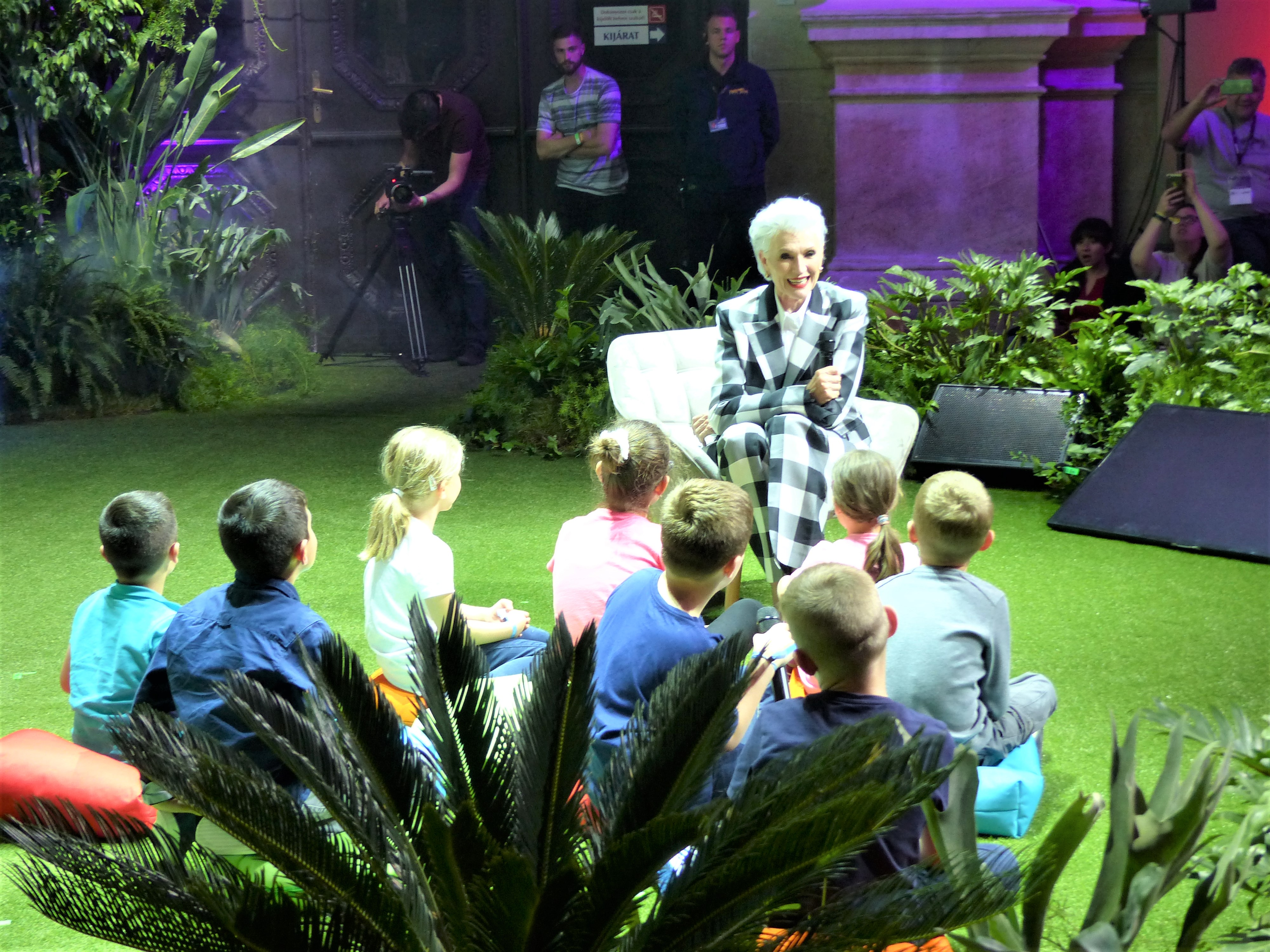 Maye Musk. Taken on the 31st of May, 2019. Brain Bar 2019, the second day - Big Hall. Corvinus University, Central Europe.